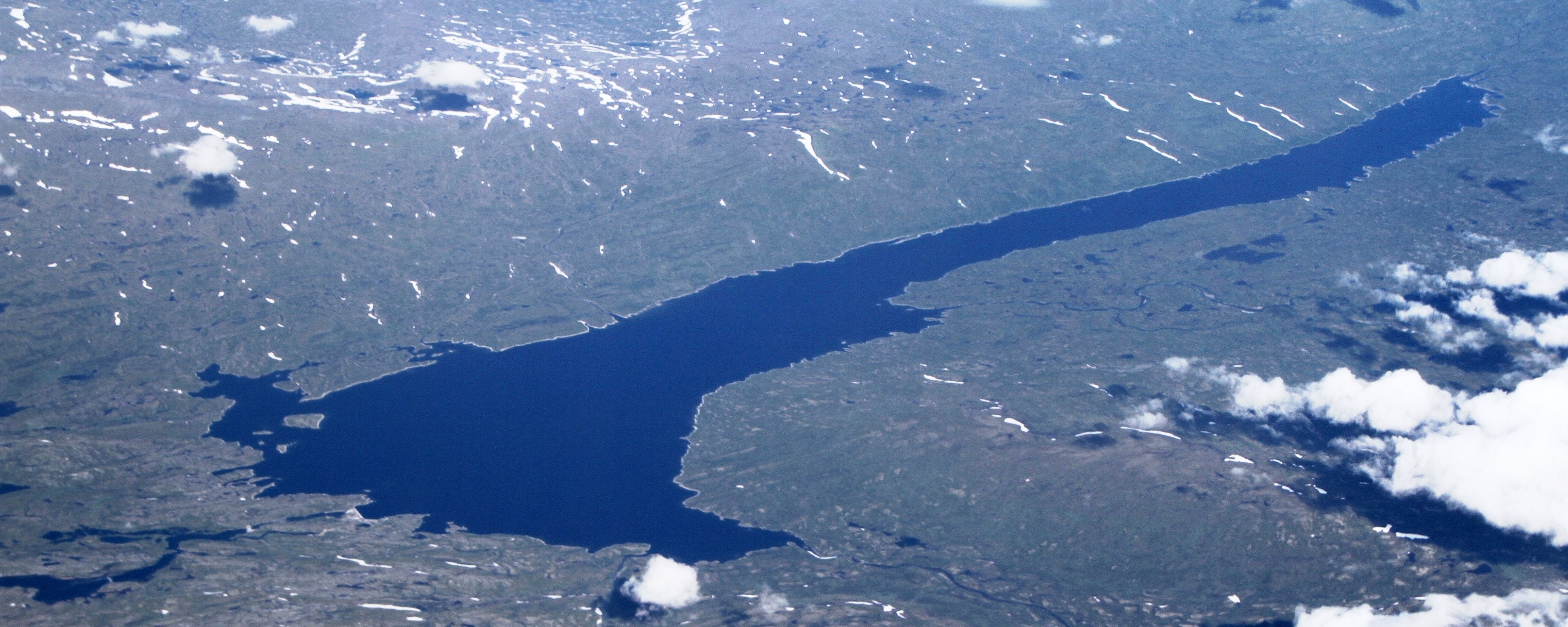 View from the southwest towards northeast, of the Nedalssjön (Sylsjön) in Jämtlands Län (Jemtland County) of Sweden. The lake is just a few km east of Norway, and it is regulated by Trondheim Utility Works (Trondheim Energiverk), providing Norwegian customers with electricity. Area is 17 sq km.